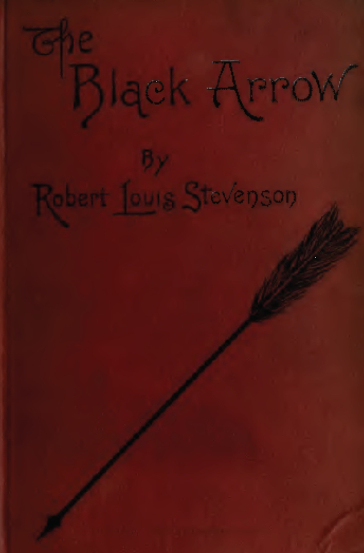 This is a jpeg that I created of the cover of a pdf book printed in 1888, and therefore in public domain.